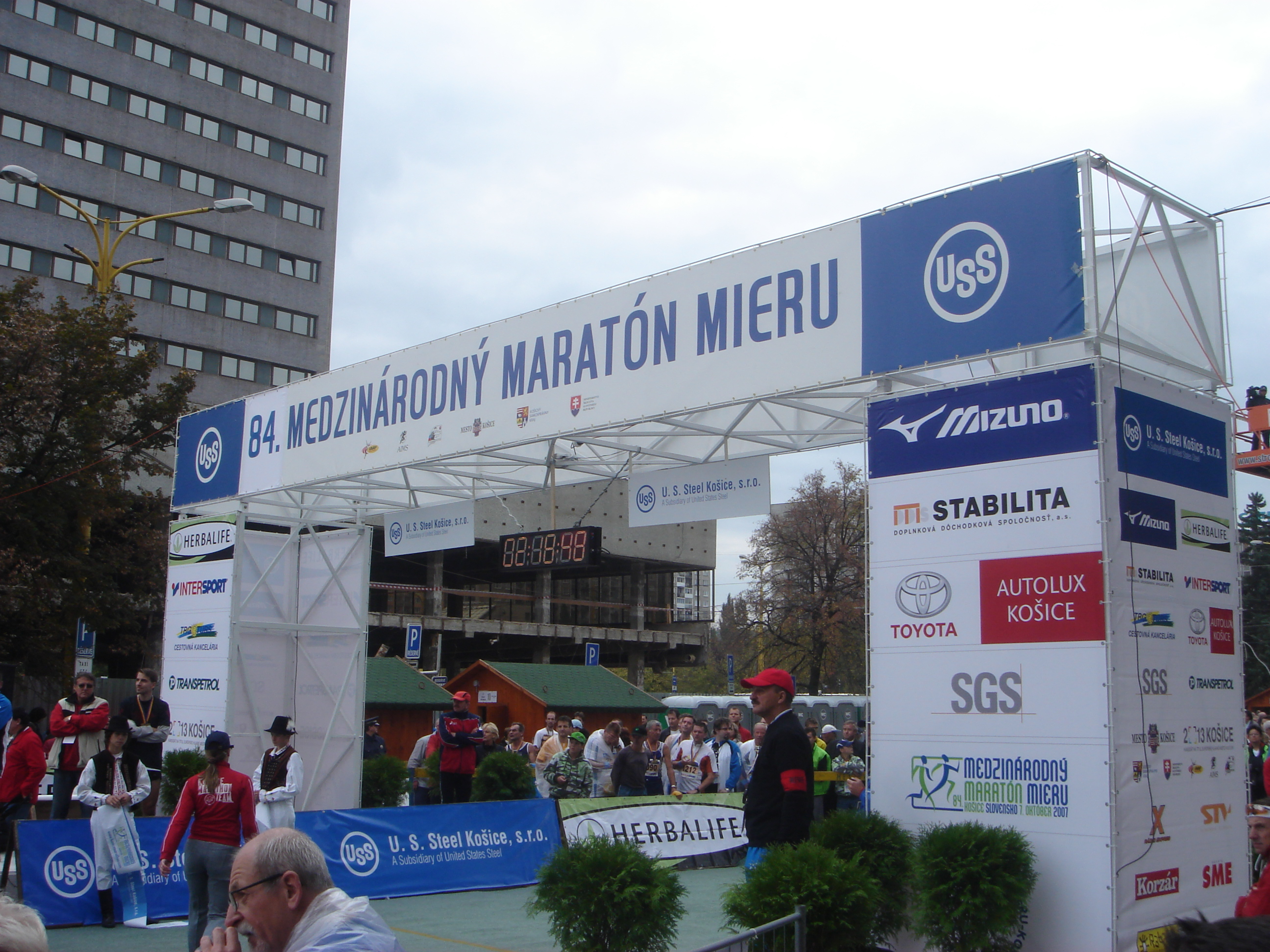 84th International Peace Marathon in Kosice, Slovakia